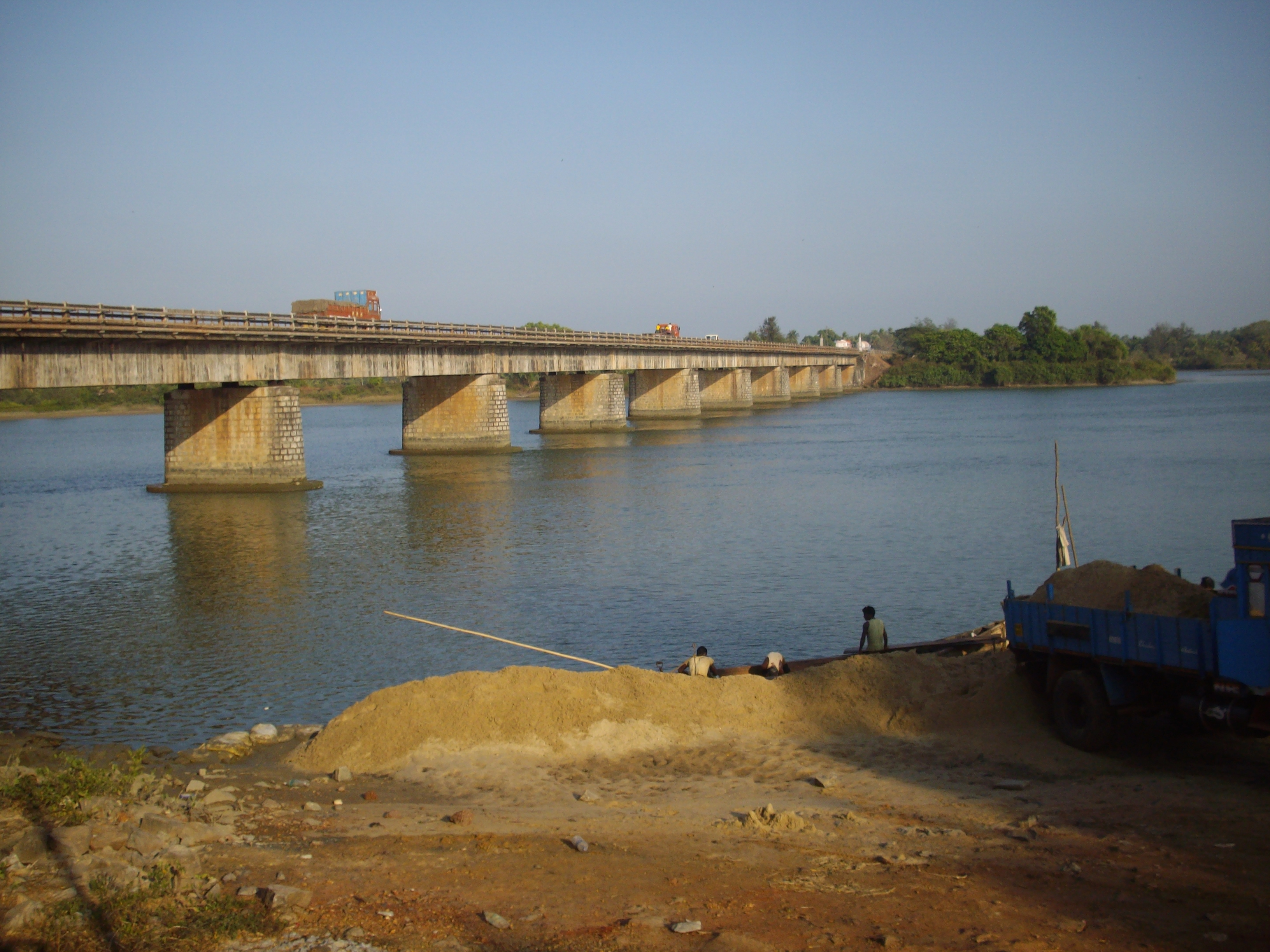 "Mabukala Bridge" on "Seetha" river. Wednesday(23-1-2008).Length of bridge= 275 metres.Year of construction = 1963.National Highway 17